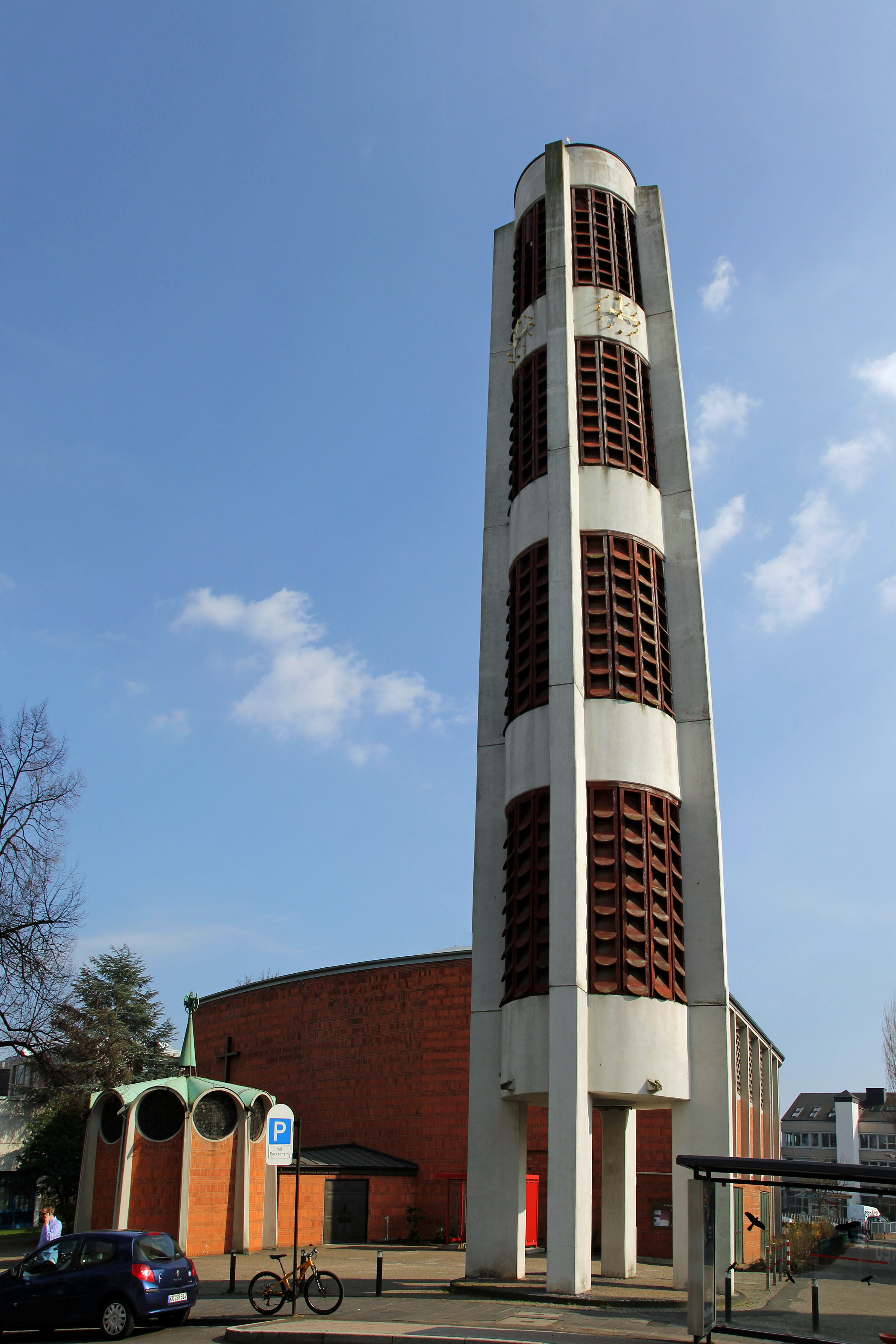 St. Elisabeth church in Koblenz